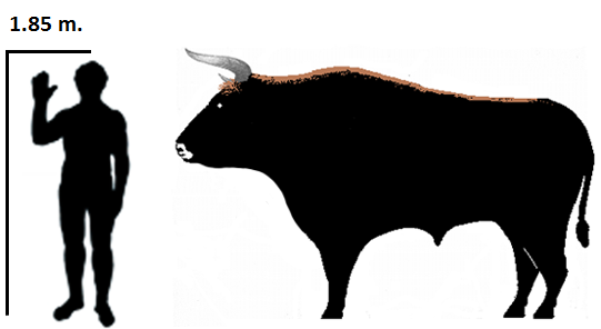 Aurochs illustration, based in a skeleton. (Uro)